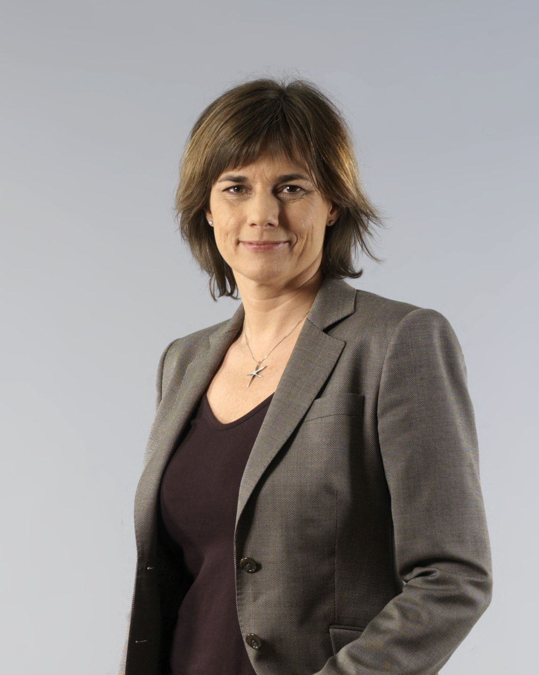 Swedish journalist and author, Isabella Lövin